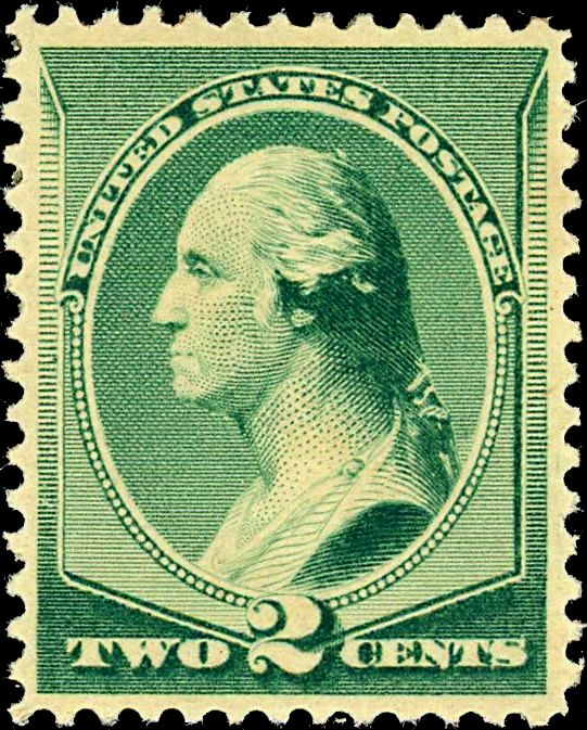 US Postage stamp: Washington, Issue of 1883, 2c